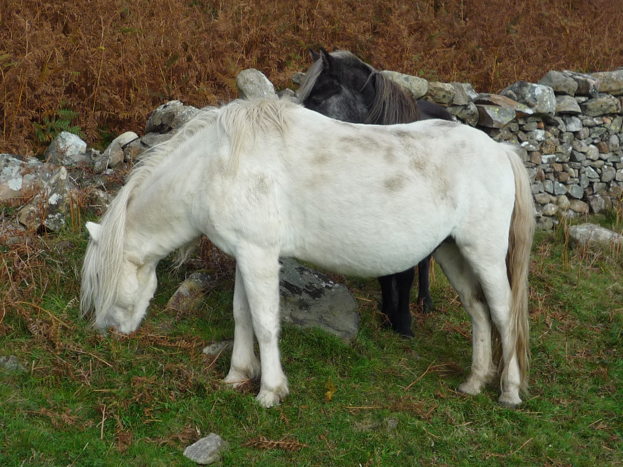 Two of the Eriskay ponies that live wild on Holy Isle in the Firth of Clyde, Scotland. Wildlife on Holy Isle. The dark coloured foal is hiding behind its mother, it will turn grey as at it grows up.